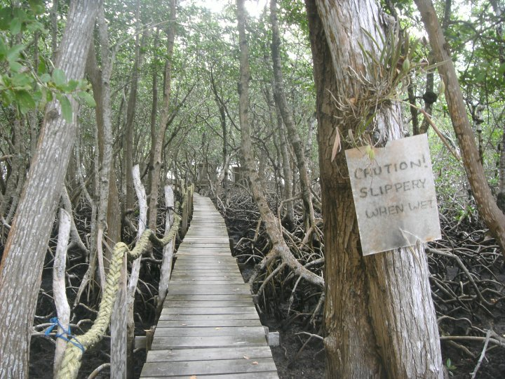 Wee Wee Caye Marine Lab, Belize. Boardwalks connecting outhouses and cabins within mangrove forest in order to prevent environmental damage to the ecosystem (i.e. soil compaction, root damage, etc.)